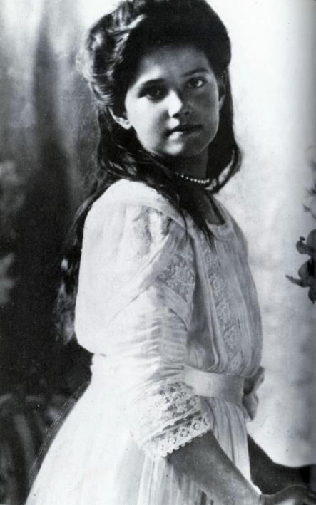 I found this photo at It is an official portrait of Grand Duchess Maria Nikolaevna of Russia, taken in 1910. Portraits of her sisters that were taken in the same year and at the same photo session were uploaded and listed as public domain. These portraits were all published on post cards prior to World War I and were available in multiple countries in Europe and probably also in the United States. It's also available on multiple sites on the Internet. I attempted to e-mail the owner of the Web site where this photo is pictured, but the link to his e-mail is broken. However, I think the image is most likely public domain. If for whatever reason it is not, I don't think the commercial value will be affected because there are better quality images elsewhere and because the image is widely available. If I am mistaken for any reason, please delete the photo.